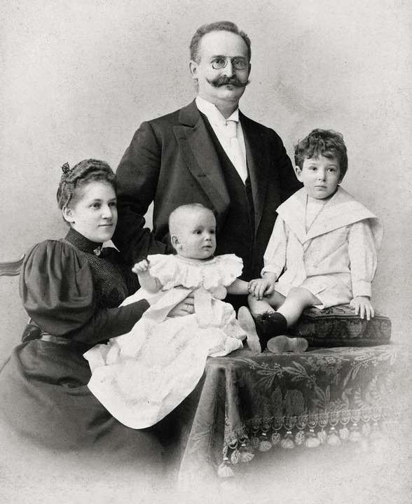 Emil and Pauline Benjamin with their sons Walter and Georg, ca. 1896.